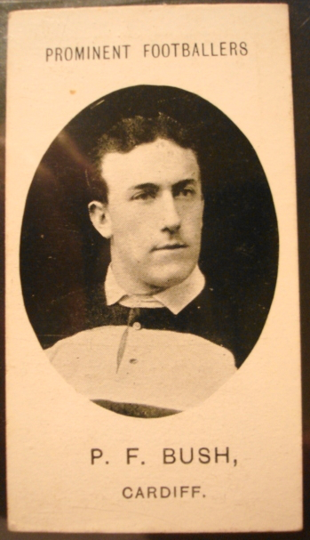 Percy Bush, Wales international rugby union players, Cardiff Club